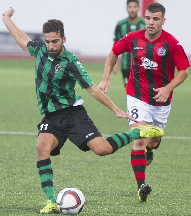 Liam Walker with Lincoln Red Imps vs. Europa FC in the 2015 Pepe Reyes Cup